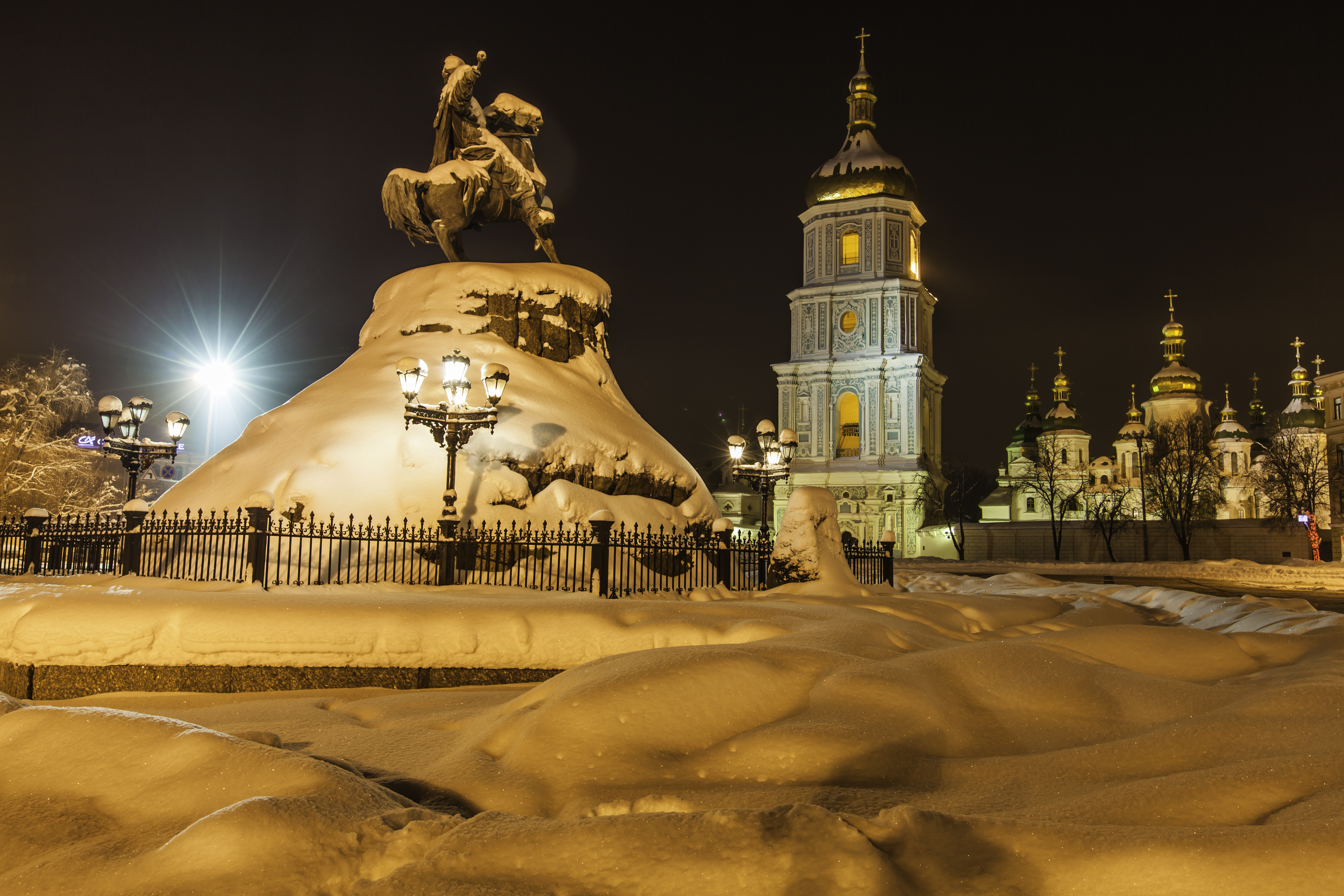 Winter cityscape Kiev Ukraine